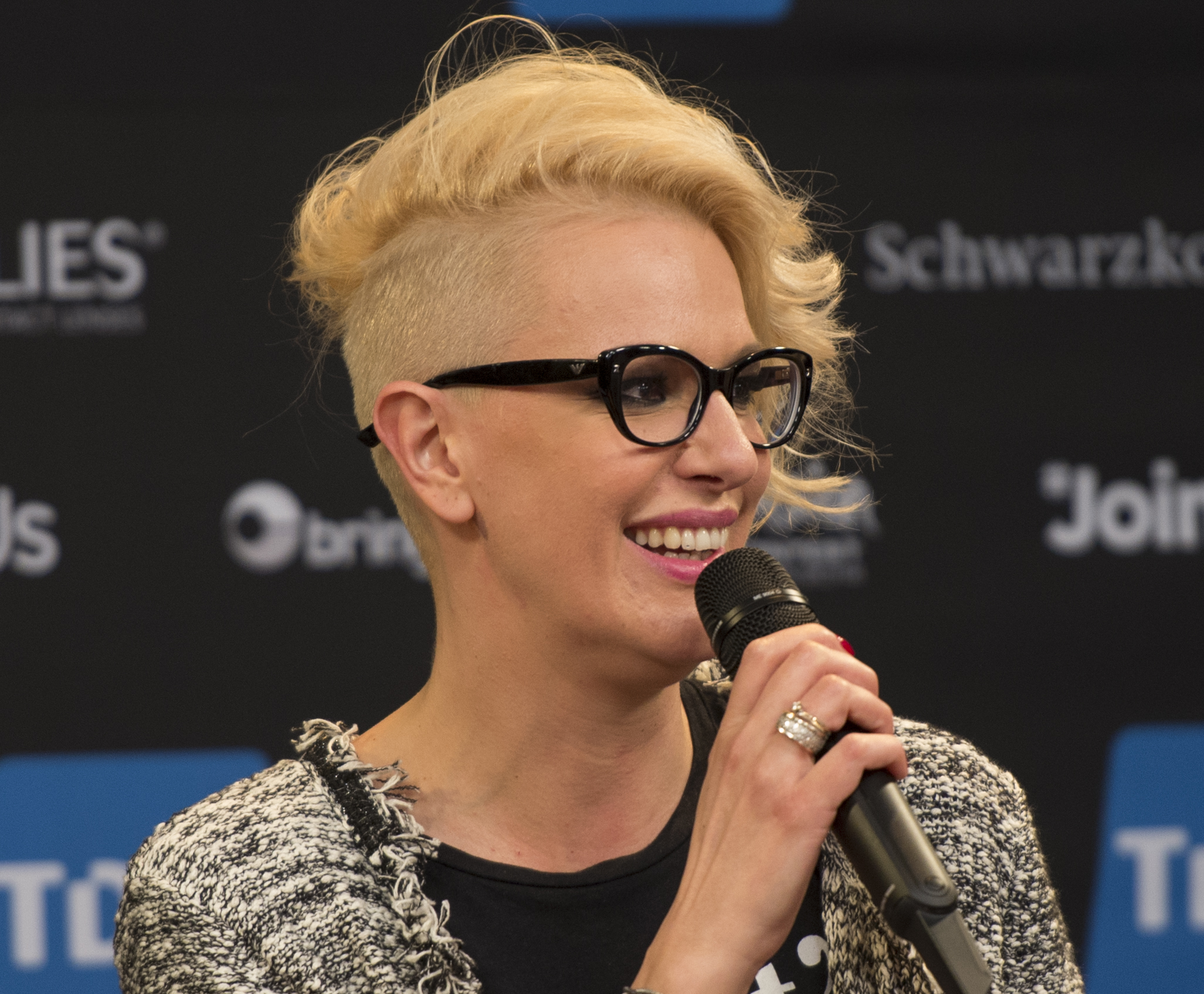 Tijana Todevska-Dapčević at a Meet & Greet during the Eurovision Song Contest 2014 Copenhagen. (Help translate this text)